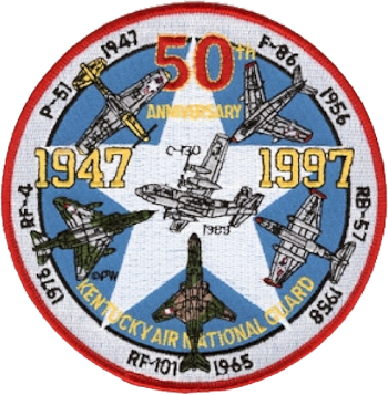 123d Airlift Wing - 50th Anniversary patch.